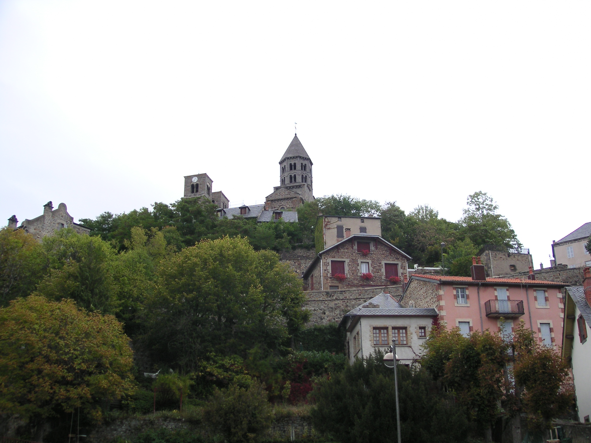 by Moala